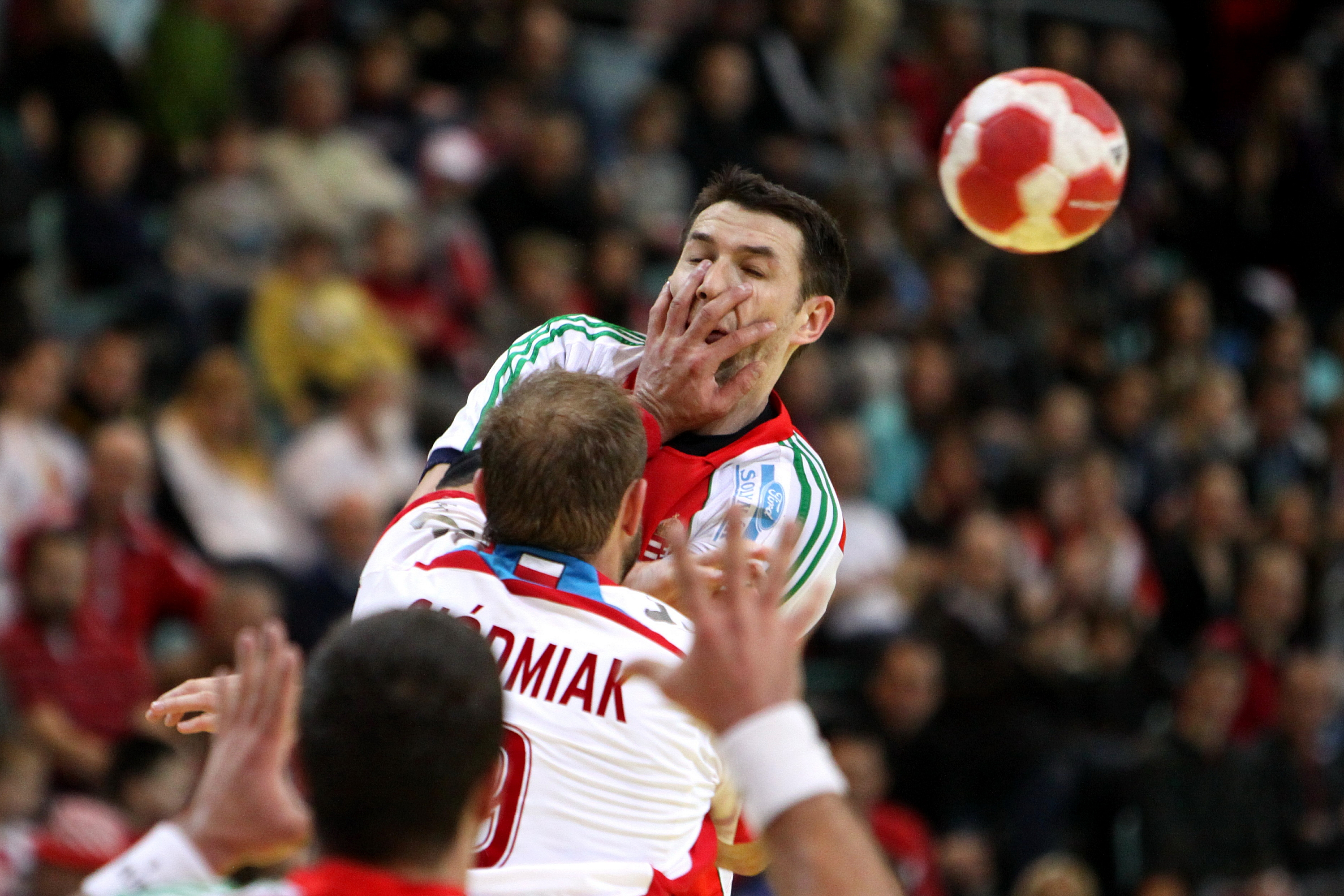 Ferenc Ilyés (hungarian Handball-Player), blocked with foul by Artur Siódmiak (Poland)